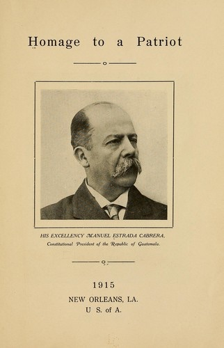 Homenaje al presidente Manuel Estrada Cabrera en 1915.